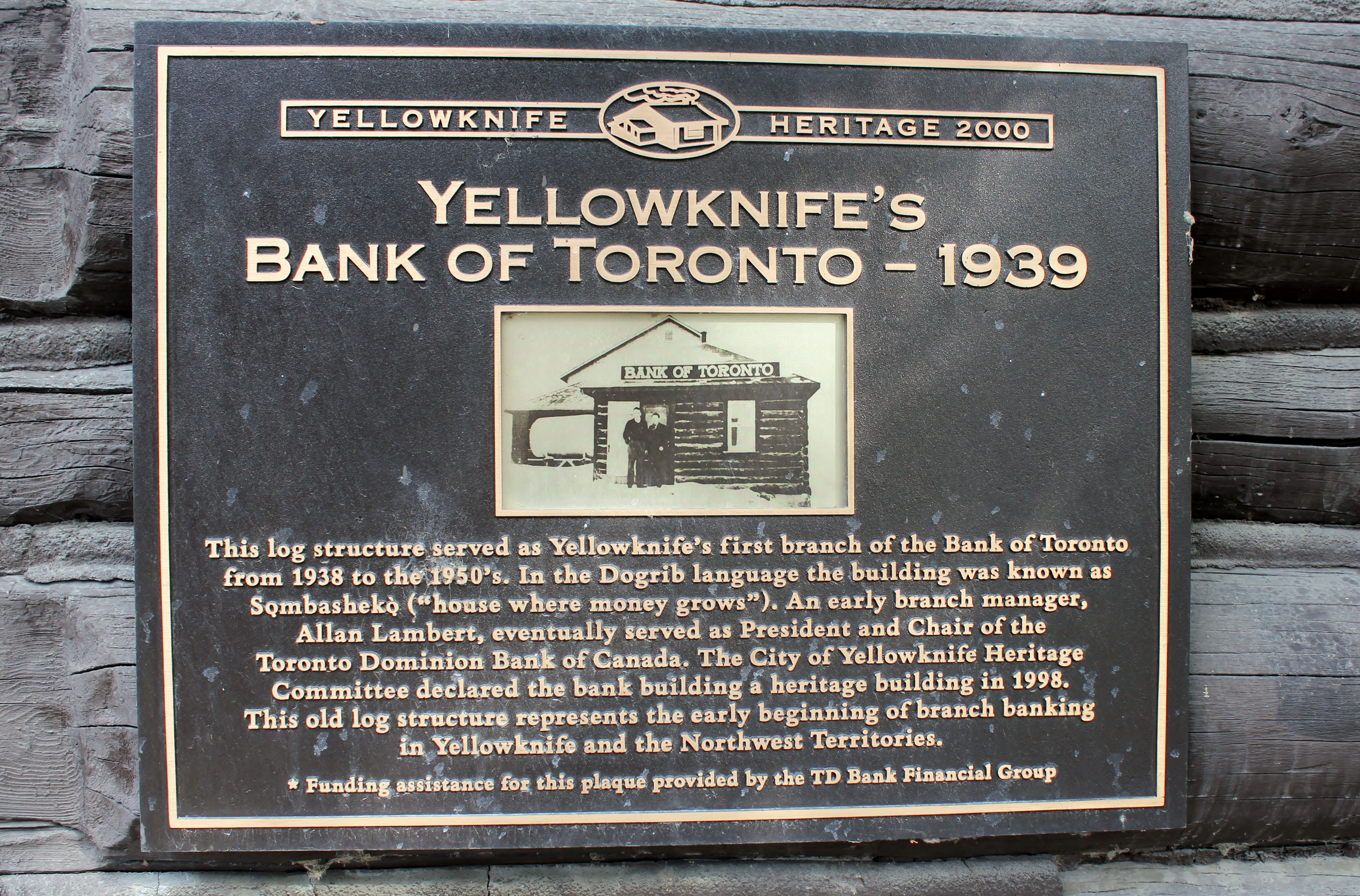 Former Yellowknife office of the Bank of Toronto.